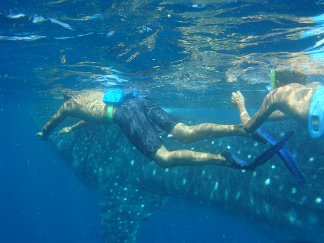 snorkeling with a whale shark northeast of Cancún